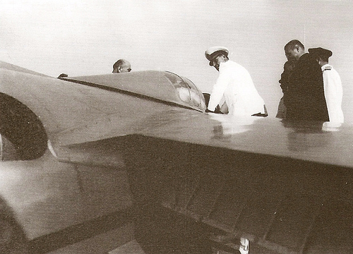 Kurt Tank and Juan Perón inspecting a protype I.Ae. 33 Pulqui II.